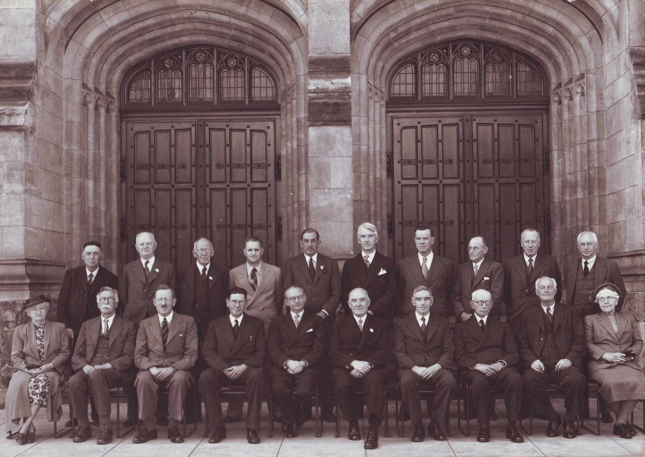 The University of Adelaide Council in 1952. Back row, from left: A. W. Bampton, A. J. Hannan, R. A. West, Prof. E. C. R. Spooner, Hon. C. R. Cudmore, Prof. J. G. Cornell, Dr. G. H. Burnell, Prof. A. K. Macbeth, R. H. Chapman, Sir Archibald Grenfell Price. Front row: Mrs. H. M. Lewis, Prof. Sir Kerr Grant, Sir Kenneth Wills, Prof. Sir Mark Mitchell, A. P. Rowe, Sir Mellis Napier, Sir George Ligertwood, Sir William Goodman, Prof. Sir Douglas Mawson, Dr. Helen Mayo.